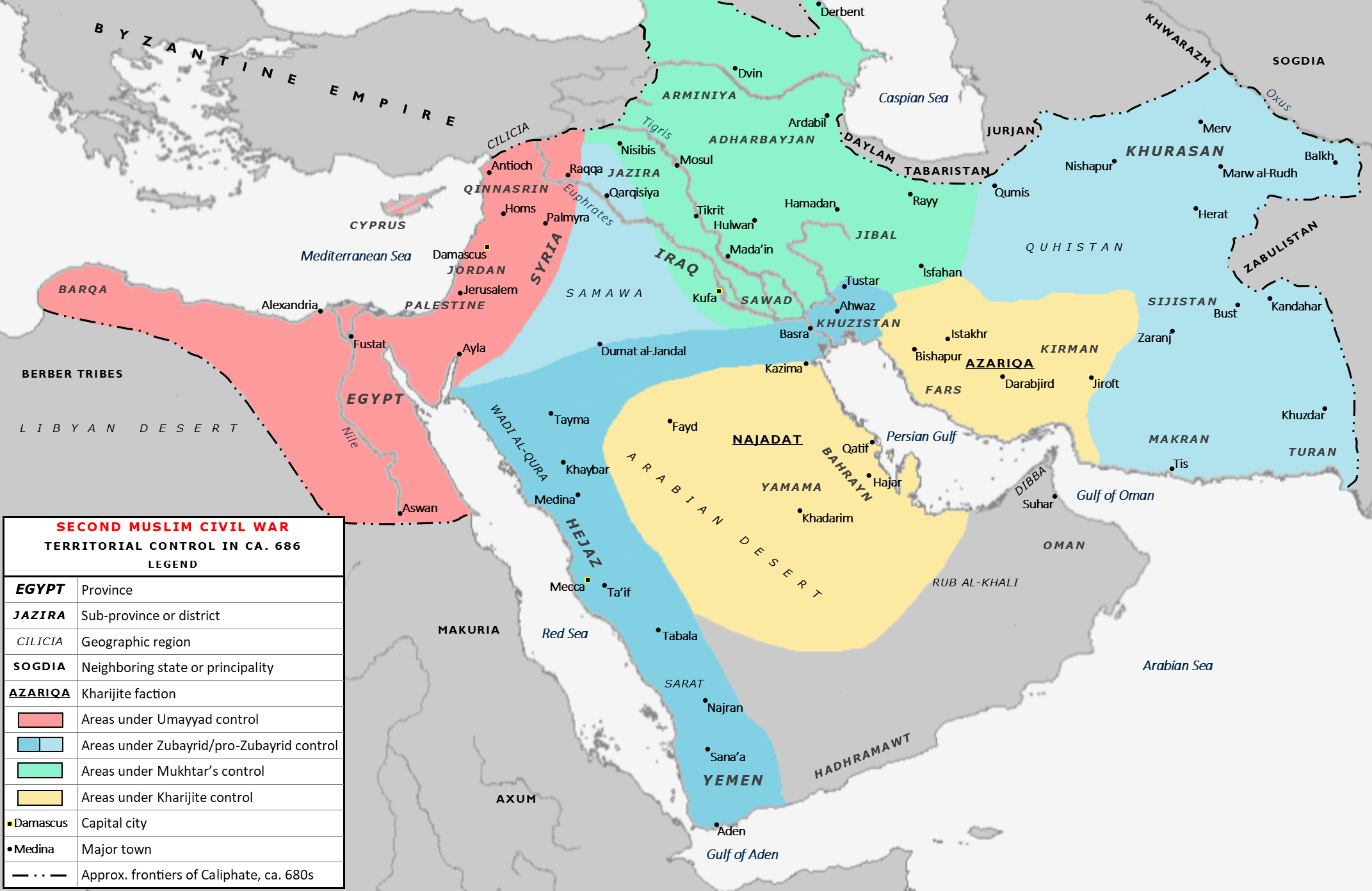 A map of the Caliphate during the Second Fitna (Second Muslim Civil War), showing the approximate areas of control of the the Damascus-based Umayyad dynasty (in red), the Mecca-based counter-caliph Abd Allah ibn al-Zubayr (in blue), the Kufa-based pro-Alid ruler al-Muktar al-Thaqafi (in green) and the Kharijite Azariqa and Najdat factions (in yellow). Sources: Dixon, 'Abd al-Ameer (1971). The Umayyad Caliphate, 65–86/684–705: (A Political Study). London: Luzac. ISBN 978-0718901493. Fishbein, Michael. The History of al-Ṭabarī, Volume XXI: The Victory of the Marwānids, A.D. 685–693/A.H. 66–73. SUNY Series in Near Eastern Studies. Albany, New York: State University of New York Press. ISBN 978-0-7914-0221-4. Hawting, G.R., ed. (1989). The History of al-Ṭabarī, Volume XX: The Collapse of Sufyānid Authority and the Coming of the Marwānids: The Caliphates of Muʿāwiyah II and Marwān I and the Beginning of the Caliphate of ʿAbd al-Malik, A.D. 683–685/A.H. 64–66. SUNY Series in Near Eastern Studies. Albany, New York: State University of New York Press. ISBN 978-0-88706-855-3. Hawting, Gerald R. (1993). "al-Mukhtār b. Abī ʿUbayd". In Bosworth, C. E.; van Donzel, E.; Heinrichs, W. P. & Pellat, Ch. (eds.). The Encyclopaedia of Islam, New Edition, Volume VII: Mif–Naz. Leiden: E. J. Brill. pp. 521–524. ISBN 90-04-09419-9. Rubinacci, R. (1960). "Azārika". In Gibb, H. A. R.; Kramers, J. H.; Lévi-Provençal, E.; Schacht, J.; Lewis, B. & Pellat, Ch. (eds.). The Encyclopaedia of Islam, New Edition, Volume I: A–B. Leiden: E. J. Brill. p. 810–811. ISBN 90-04-08114-3. Rubinacci, R. (1993). "Nadjadāt". In Bosworth, C. E.; van Donzel, E.; Heinrichs, W. P. & Pellat, Ch. (eds.). The Encyclopaedia of Islam, New Edition, Volume VII: Mif–Naz. Leiden: E. J. Brill. pp. 858–859. ISBN 90-04-09419-9